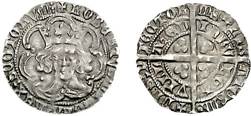 Scotland. Robert III of Scotland. 1390-1406. AR Groat (2.81 g, 12h). Heavy coinage, circa 1390-1403. Edinburgh mint, first issue. Crowned facing bust in tressure of seven arches ornamented with trefoils; triple-pellet stops Long cross; trefoils in quarters, double-saltire stops. Burns 6; SCBI 35 (Ashmolean), 545 var. (stop after RGh); SCBC 5164. VF, toned.